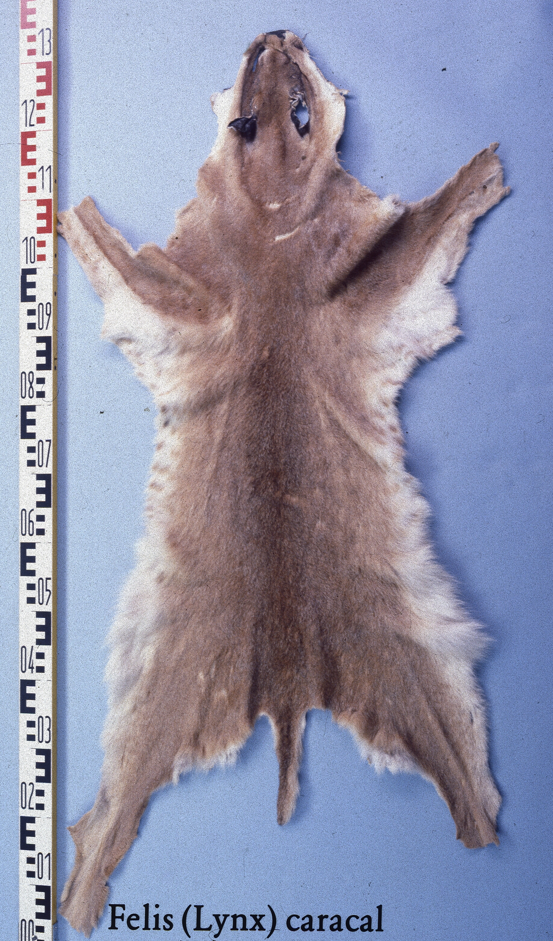 Caracal lynx fur skin (Africa) (Caracal caracal). Fur skin collection, Bundes-Pelzfachschule, Frankfurt/Main, Germany